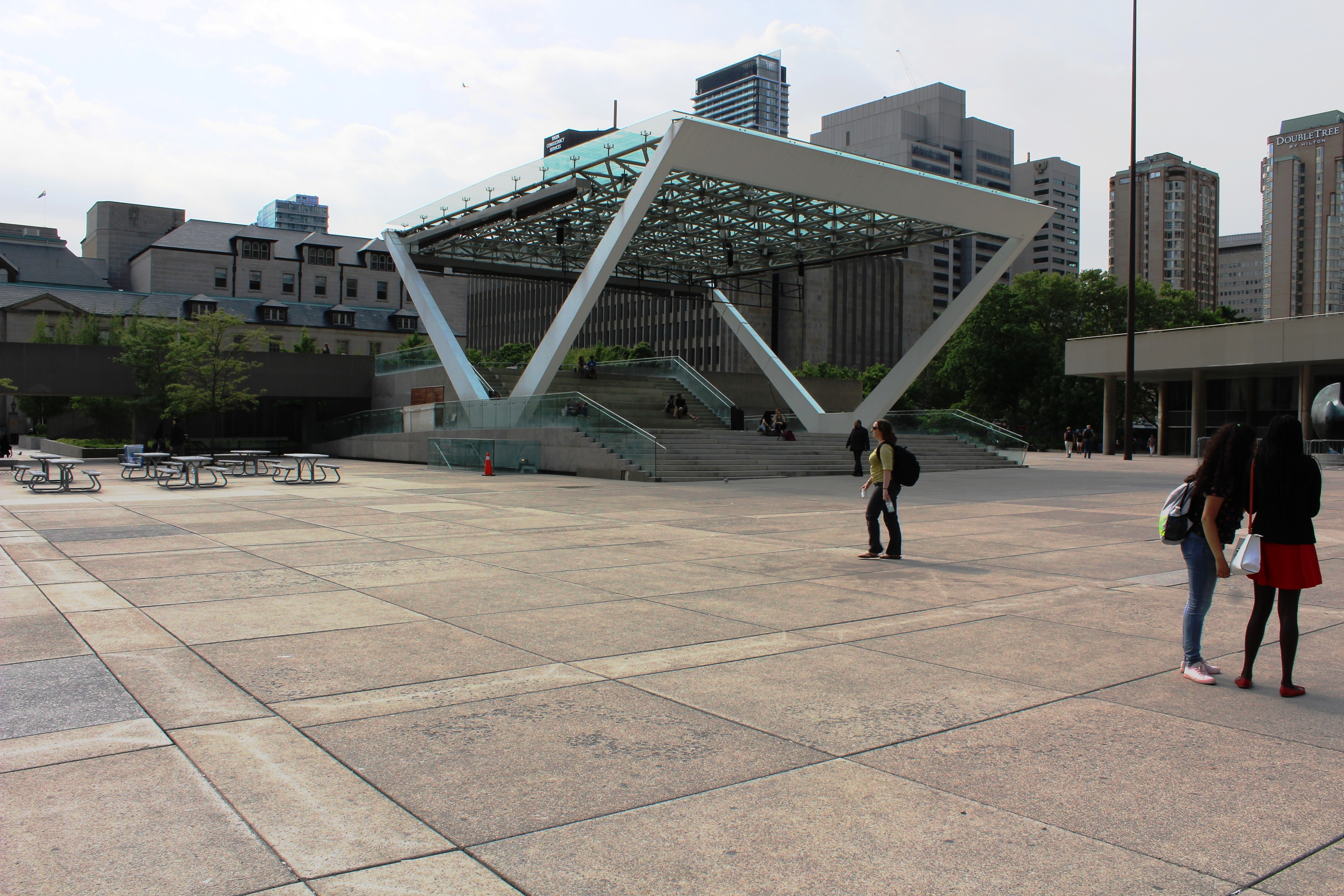 Nathan Phillips Square. View from south-east.